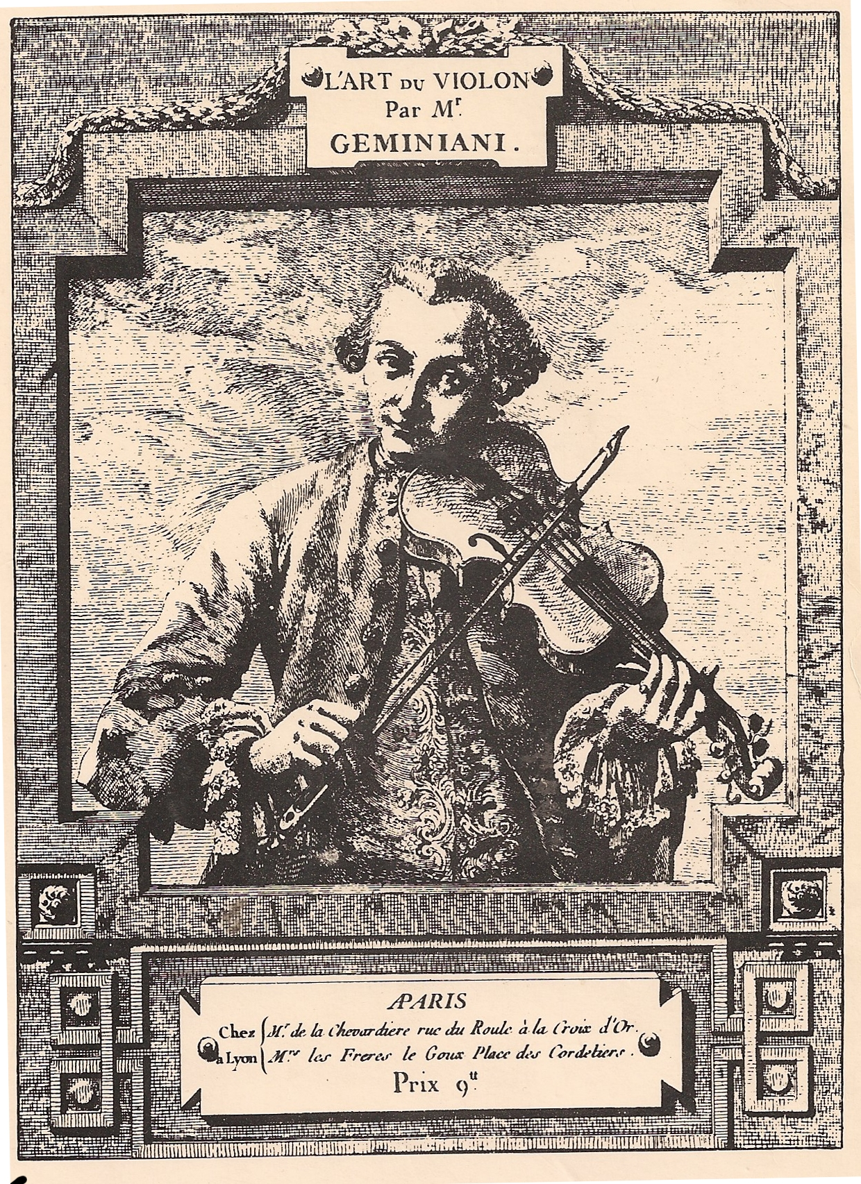 Portrait of Francesco Geminiani from "L'Art de jouer le Violon", Paris, 1752